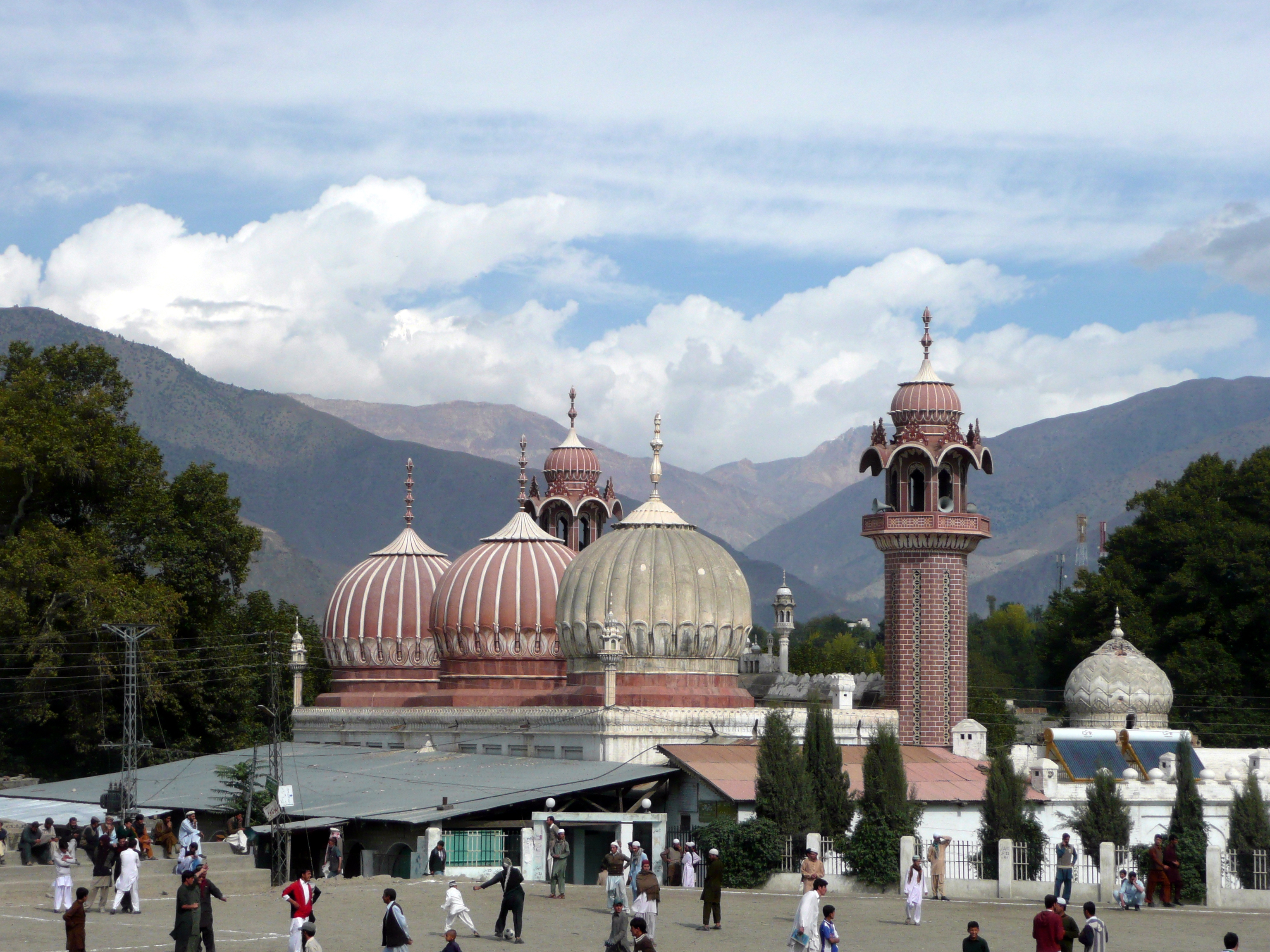 Grand Mosque of Chitral